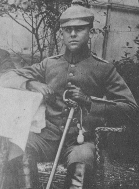 The German theology student and soldier Ernst Wurche (1894–1915) at Eastern Front in 1915.